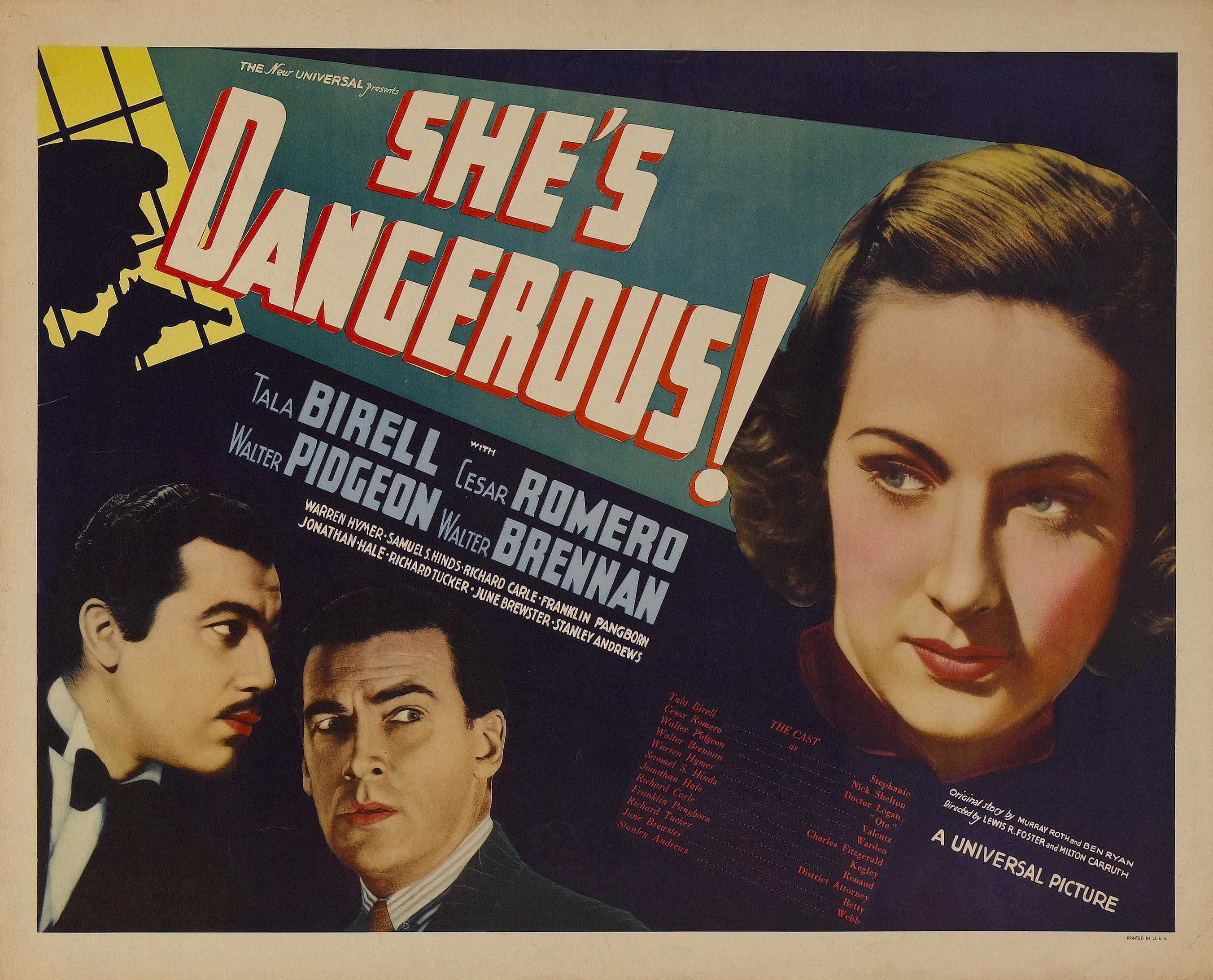 Promotional poster for the film She's Dangerous (1937).